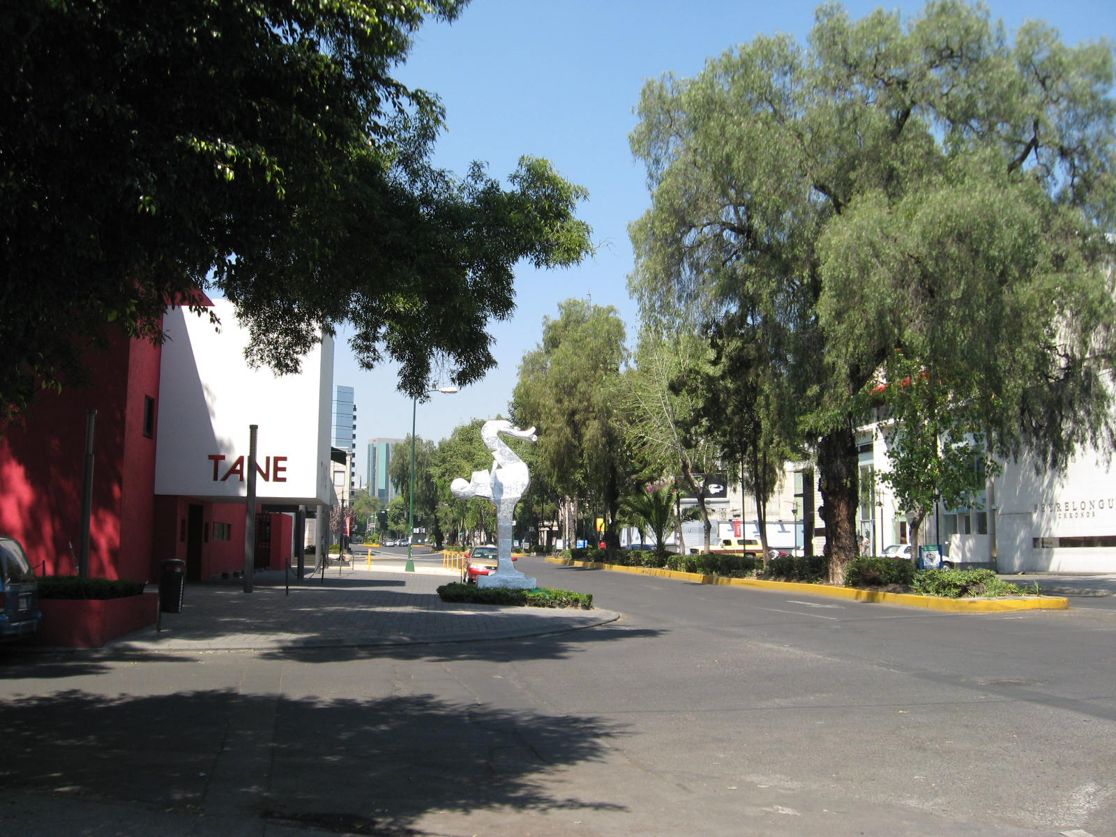 Section of Presidente Masaryk Street near intersection of Lafontaine in the Polanco neighborhood of Mexico City